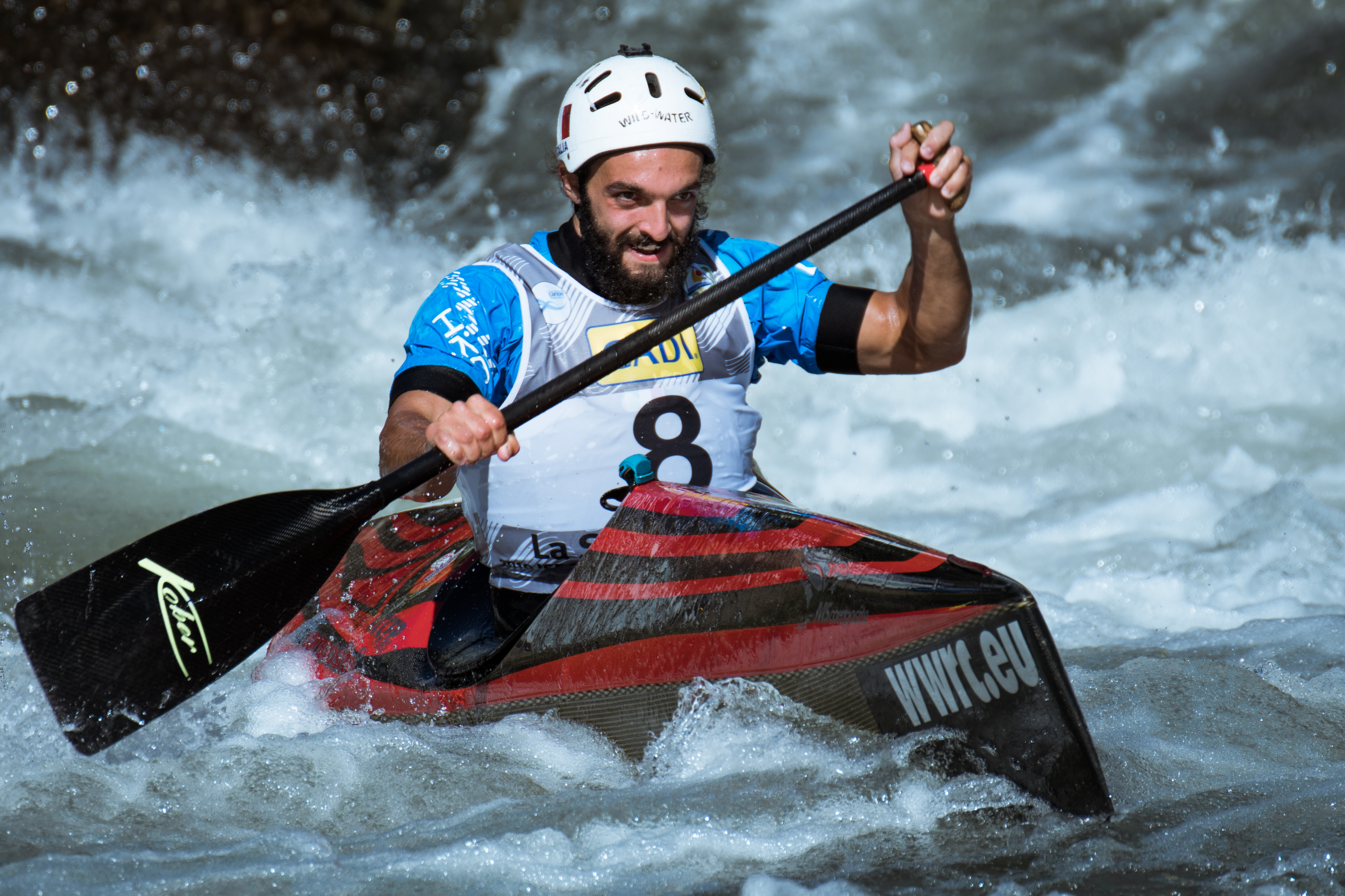 Mattia Quintarelli during the 2019 Canoe Wildwater World Championships in La Seu d'Urgell, Spain.